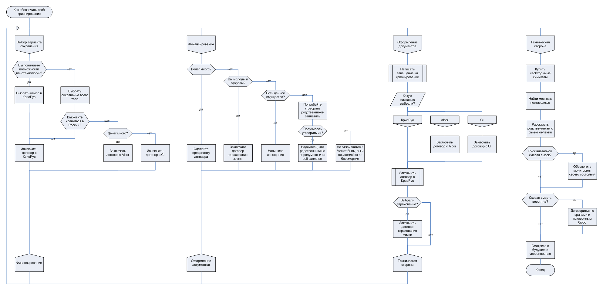 Arranging cryonics suspension, in Russian